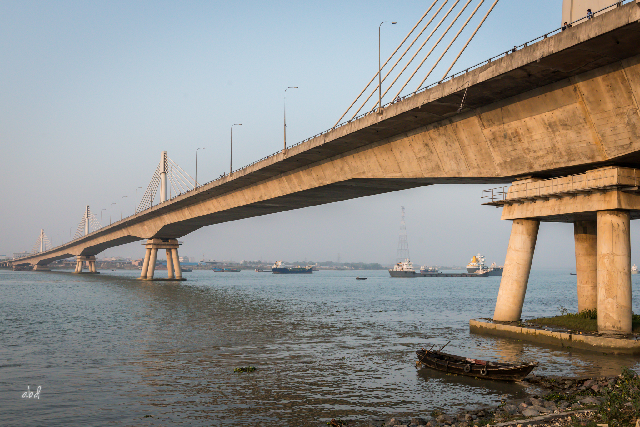 Shah Amanat Bridge, the third constructed across the Karnaphuli River in Bangladesh, is the first major cable-stayed bridge in the country.